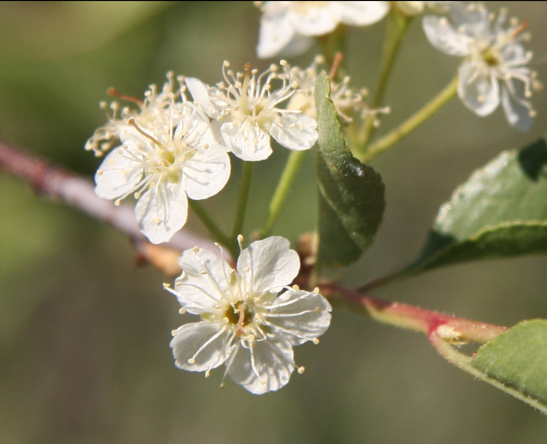 Bitter cherry (Prunus emarginata) — closeup of flowers. At 2,760 metres (9,060 ft), southeast of Lake George, Sierra Nevada, California.